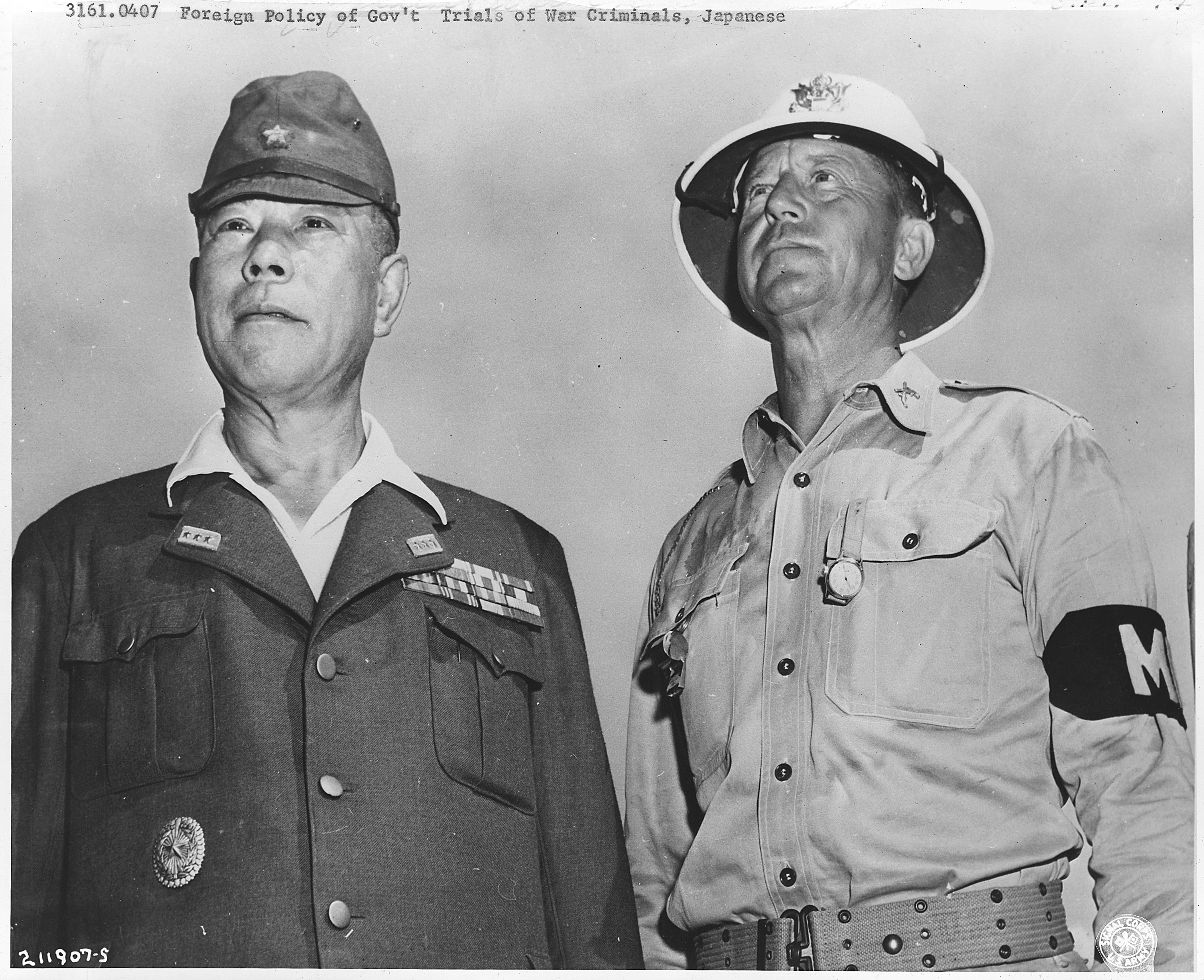 Scope and content: YAMASHITA'S ARRAIGNMENT. - Lt. Gen. Tomoyuki Yamashita, the "Tiger of Malaya," is arraigned before the War Crimes Commission in Manila, pleading "not guilty." He will be confined at New Bilibid Prison until his trial, October 29, 1945, in Manila. Here, Major Kenworthy, Military Police prison officer, delivers Gen. Yamashita to the residence of the Philippine High Commissioner, where Yamashita was held for arraignment in the first step of the war-crime trials to be held in the Pacific. The arraignment was open to the public. Yamashita was brought from his cell in New Bilibid Prison in an ambulance for security reasons. *NOTE: LTC Aubry S. Kenworthy (COL retired) more information is found here